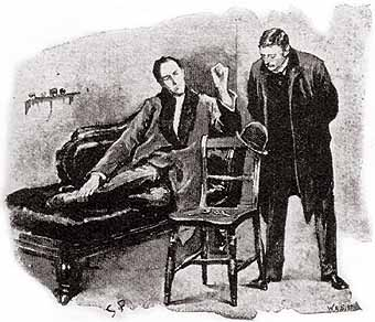 Illustration of the Sherlock Holmes short story The Blue Carbuncle, which appeared in The Strand Magazine in January, 1892. Original caption was "A VERY SEEDY HARD FELT HAT."